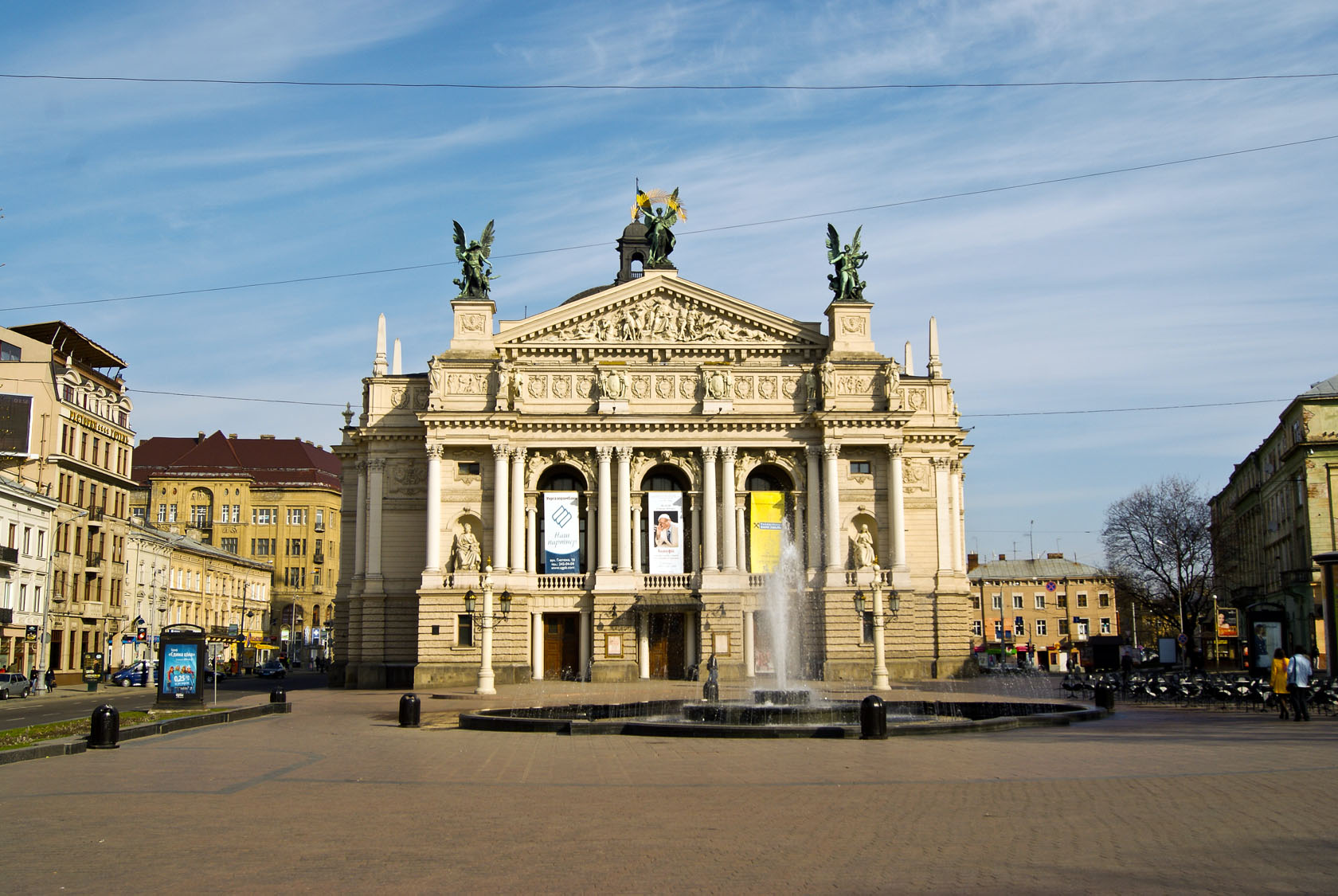 Lviv Theatre of Opera and Ballet